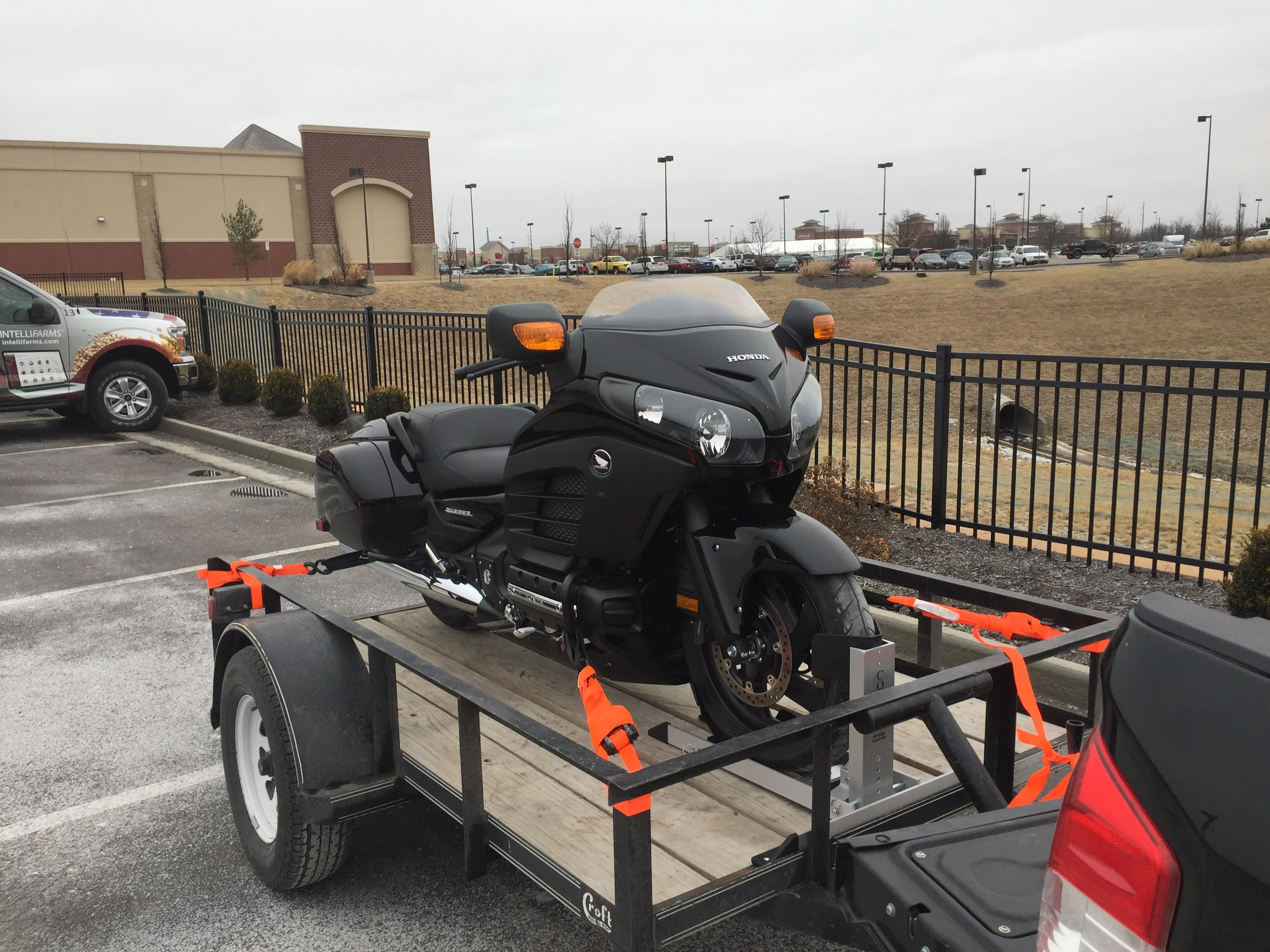 2013 Honda Gold Wing GL1800B F6B strapped to a trailer for transport.